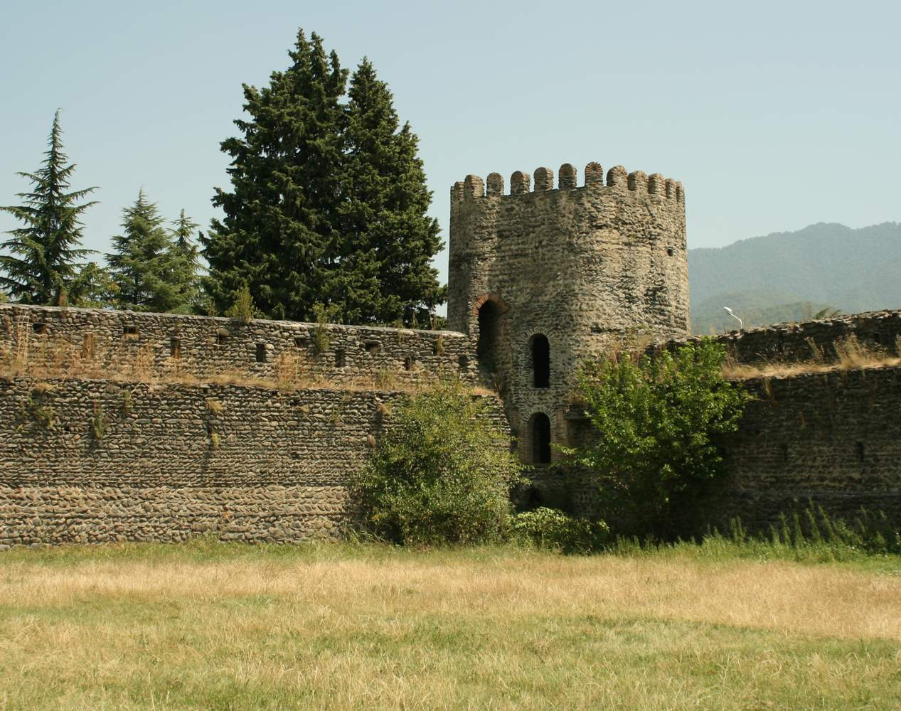 Kvareli fortress. Interior